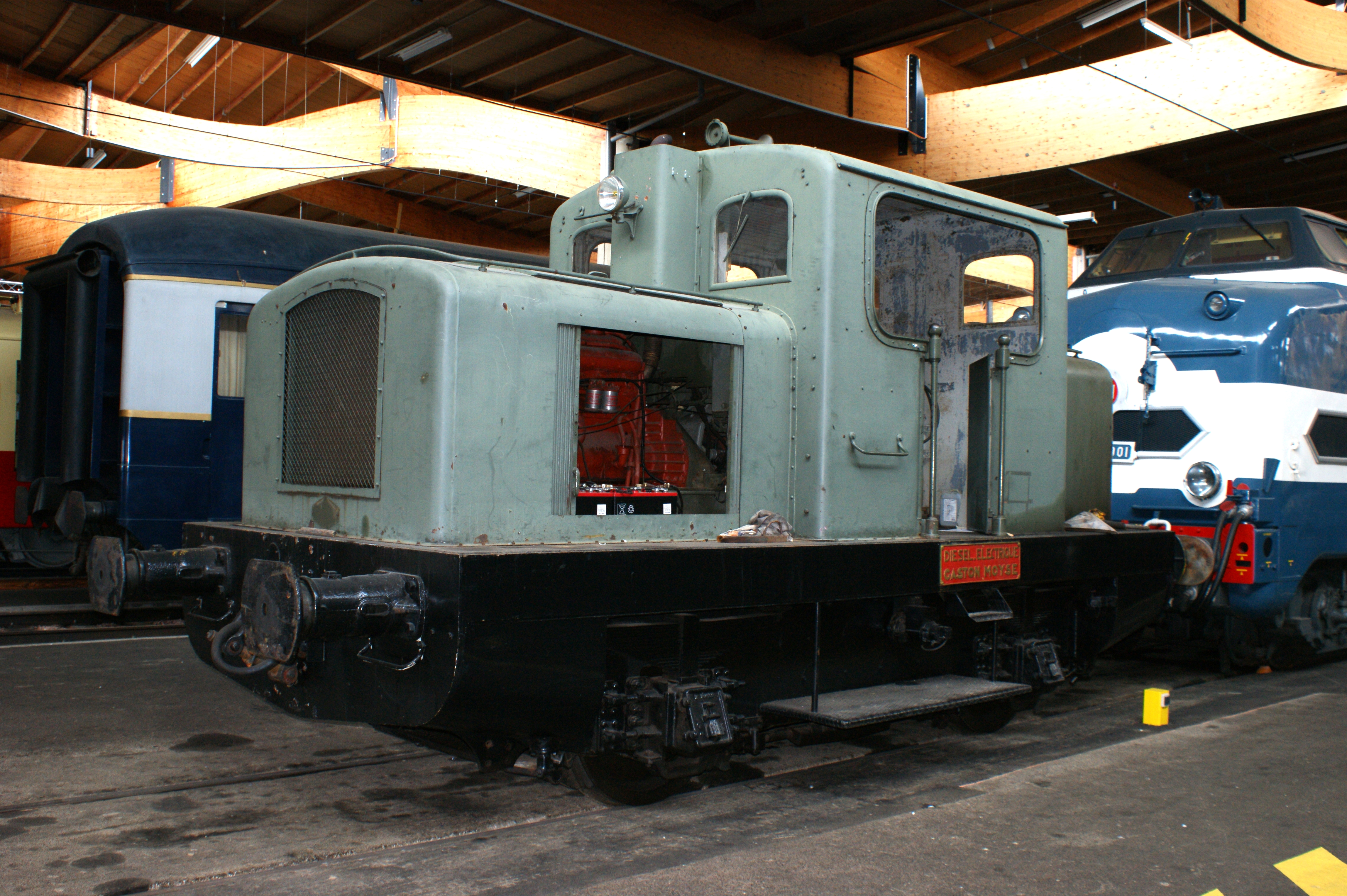 Locotracteur built by Gaston Moyes, at the French Railway Museum, Mulhouse, 3/09.